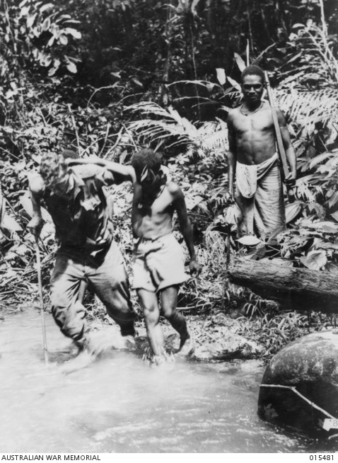 1943-08-10. New Guinea. Mount Tambu Fighting. A Fuzzy Wuzzy assists Pte. Jerry Cronin, of Katanning, W.A. to cross a creek after Cronin had been wounded in a clash against the Japanese.